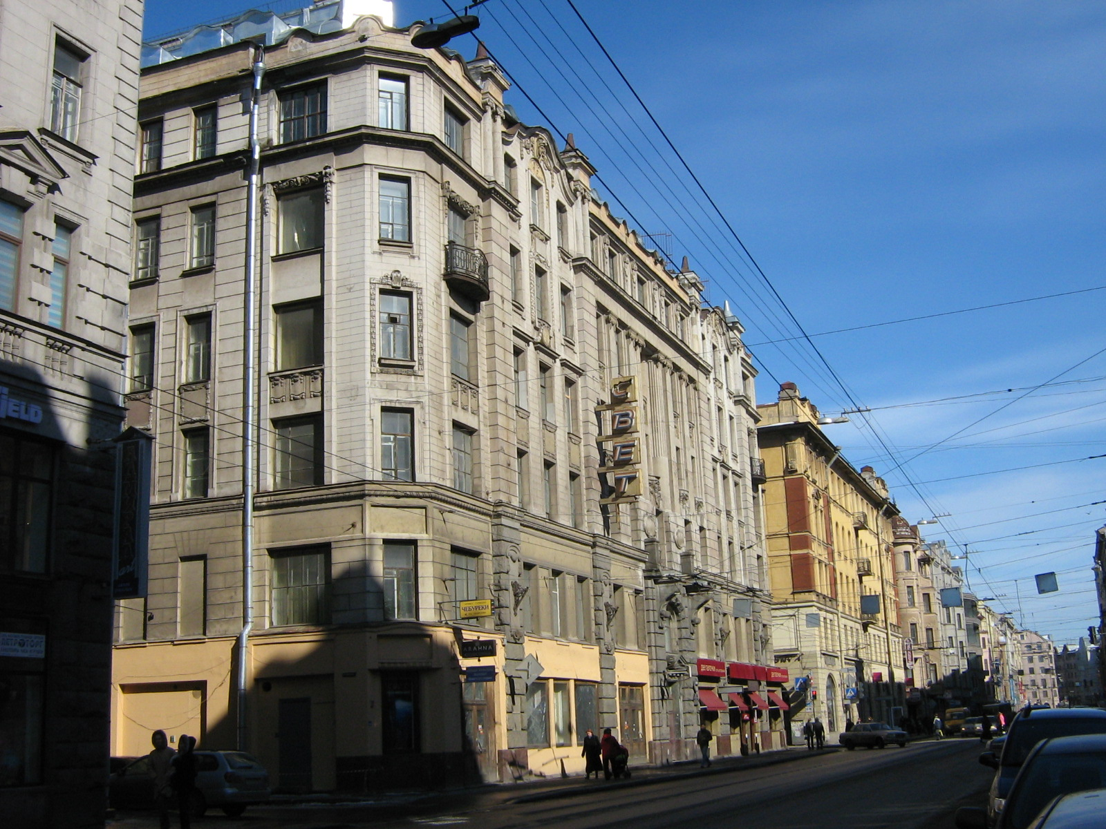 Bolshoi avenue near "Antonova house" in Petrogradsky district of Saint-Petersburg, Russia.